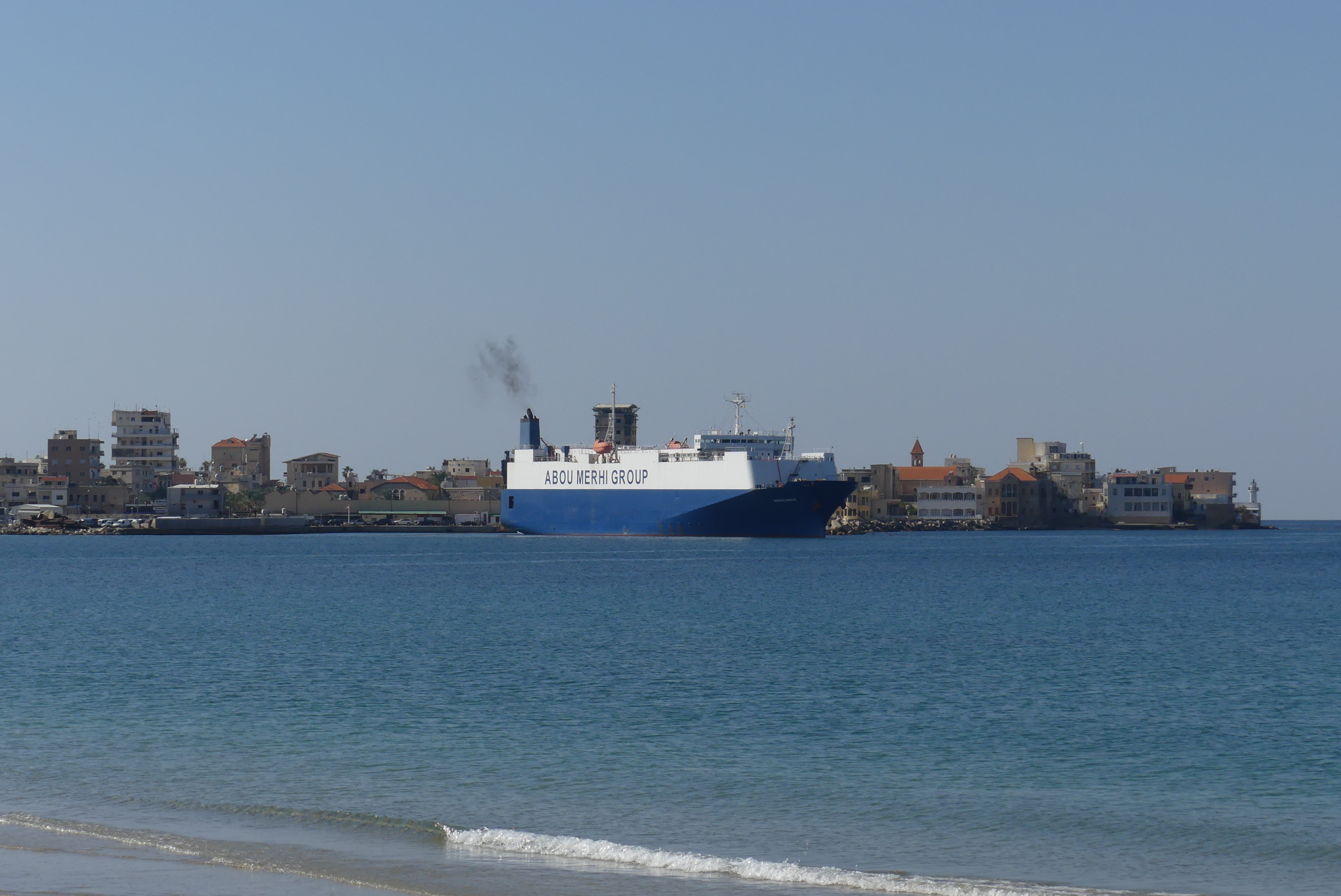 A car carrier vessel of the private Lebanese-owned Abou Merhi Group at the harbour of Tyre/Sour, Southern Lebanon